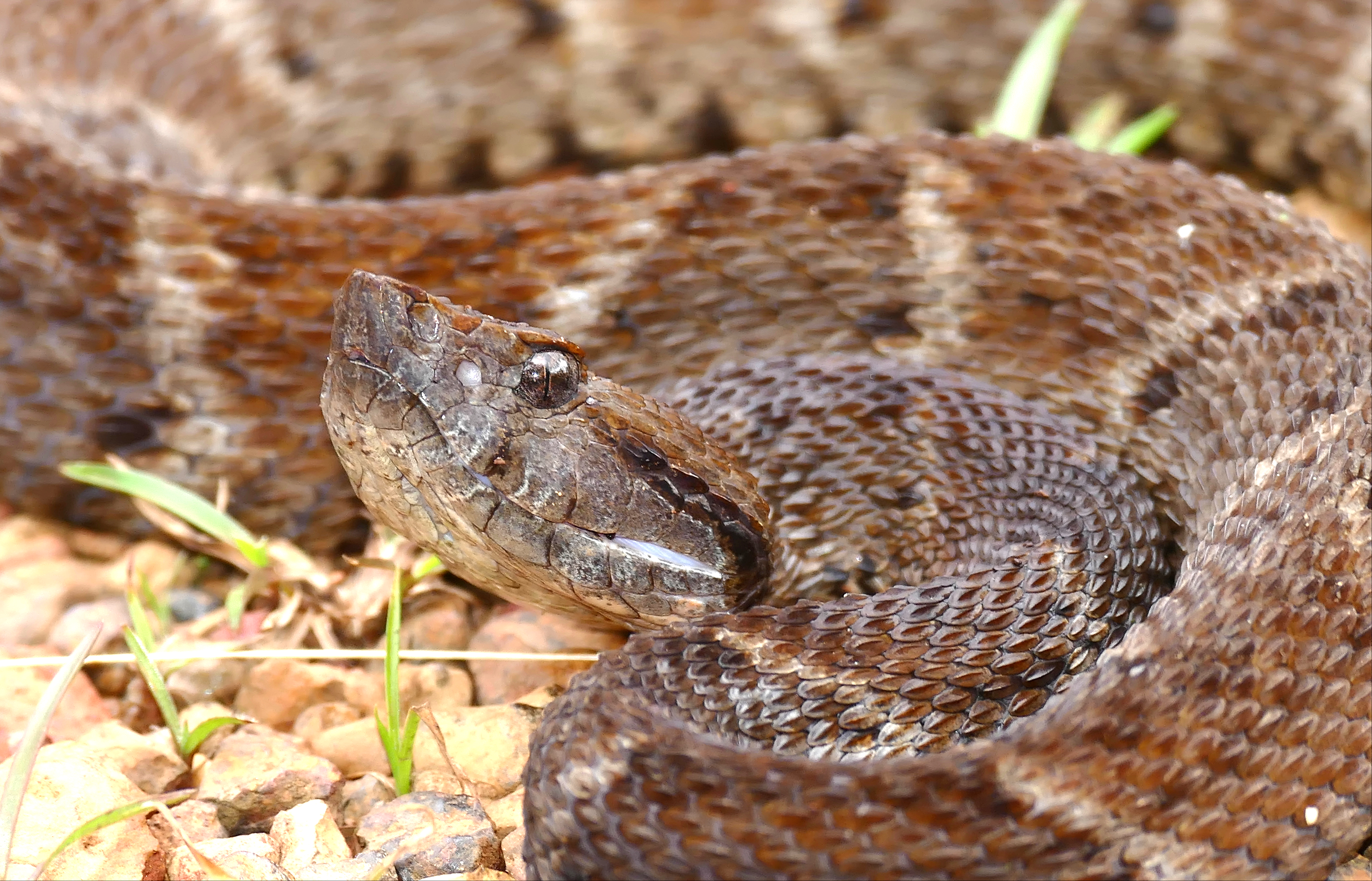 D6 Route de Kaw, Roura, French Guyana, FRANCE